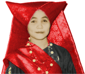 Joyce, private B/W picture, scanned and colorized by MichaelJLowe